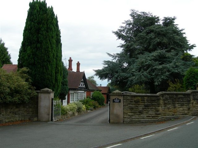 Horsley Lodge. Horsley Lodge is the entrance to the old Horsley Hall which is now derelict and overgrown.